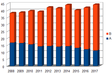 Consumption of sugar per capita in Poland kg person